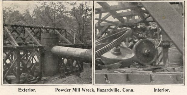 Postcard: Powder mill wreckage Hazardville, Connecticut, part of Enfield, Connecticut Original caption: “"HAZARDVILLE CT Connecticut Powder Mill Wreck ca.1906 [...] Standard postcard size (3.5” x 5.25”) Condition is unused, age is circa 1906" ”